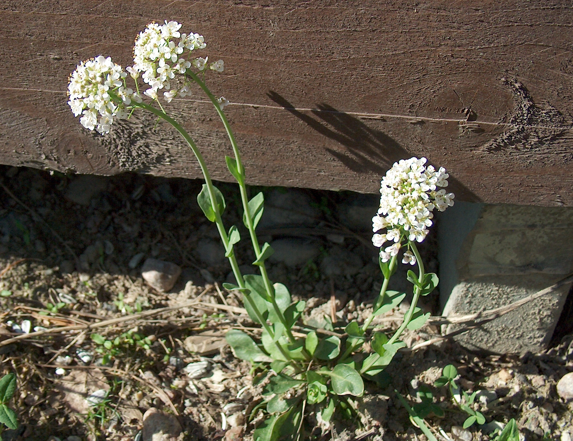 Alpine Pennycress, Thlaspi alpestre - Kerava, Finland 2008